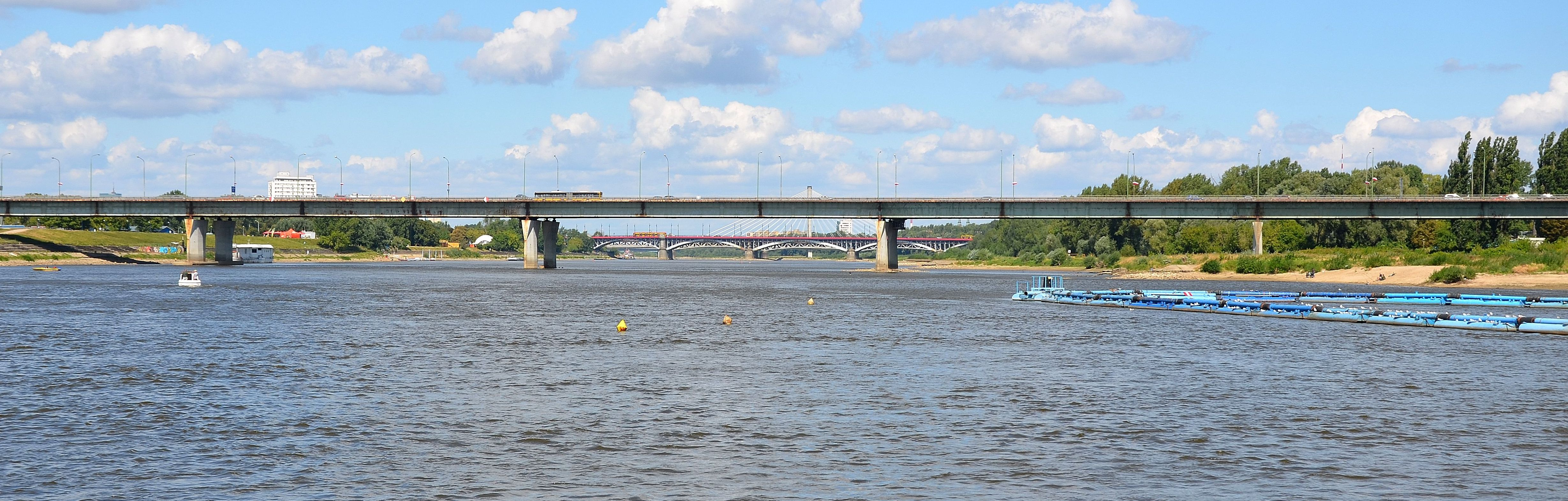 Łazienkowski Bridge in Warsaw, view to the north